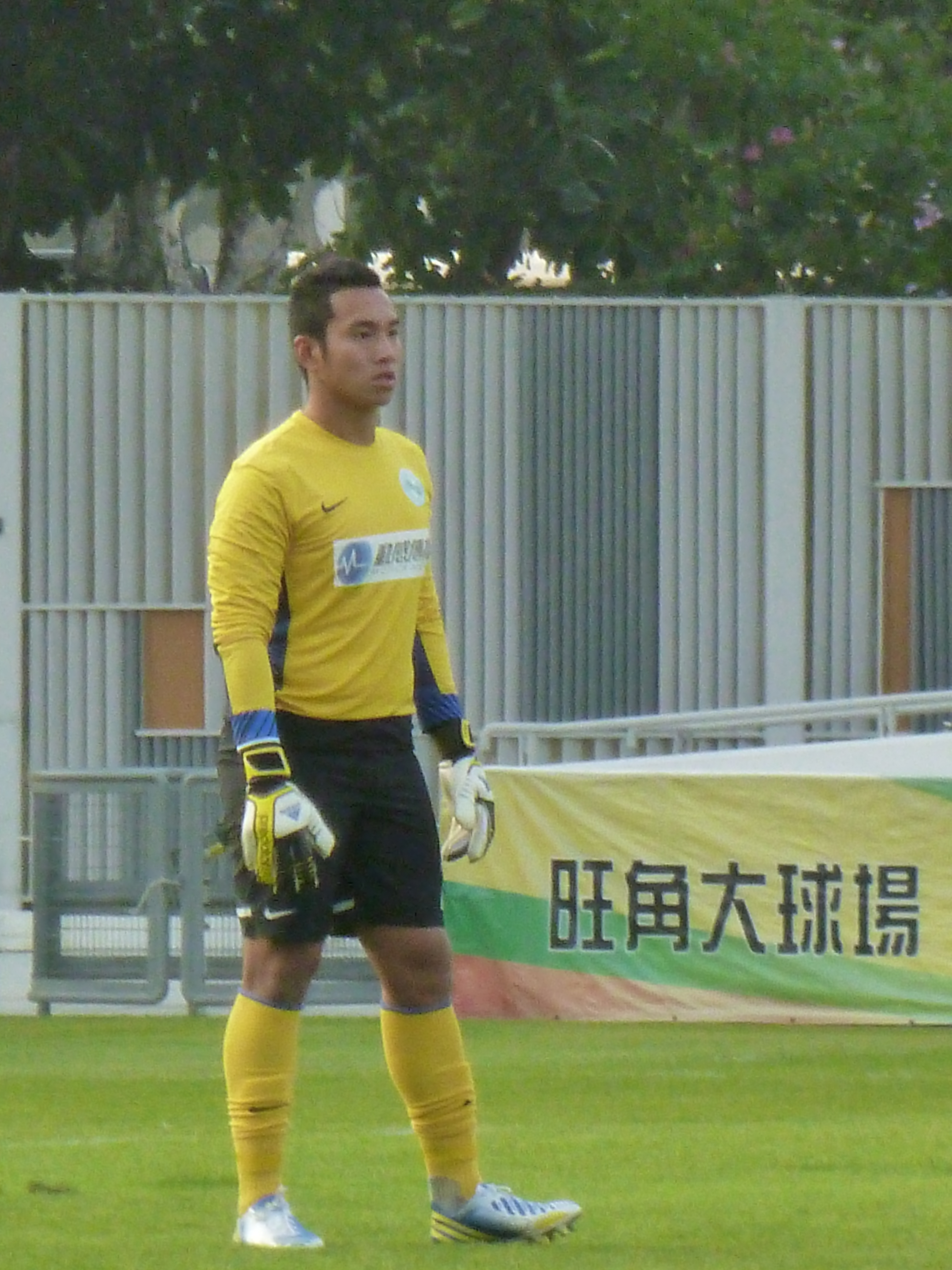 Chiu Yu Ming (23 Feb 2013, Hong Kong First Division League, Sun Hei vs Southern, Mong Kok Stadium)中文（香港）: 邱于銘 (23 Feb 2013, 香港甲組足球聯賽, 晨曦 vs 南區, 旺角大球場)